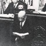 A member of the House of Peers, Tatsukichi Minobe (1873–1948) addressing at the Chamber (The 67th Diet).